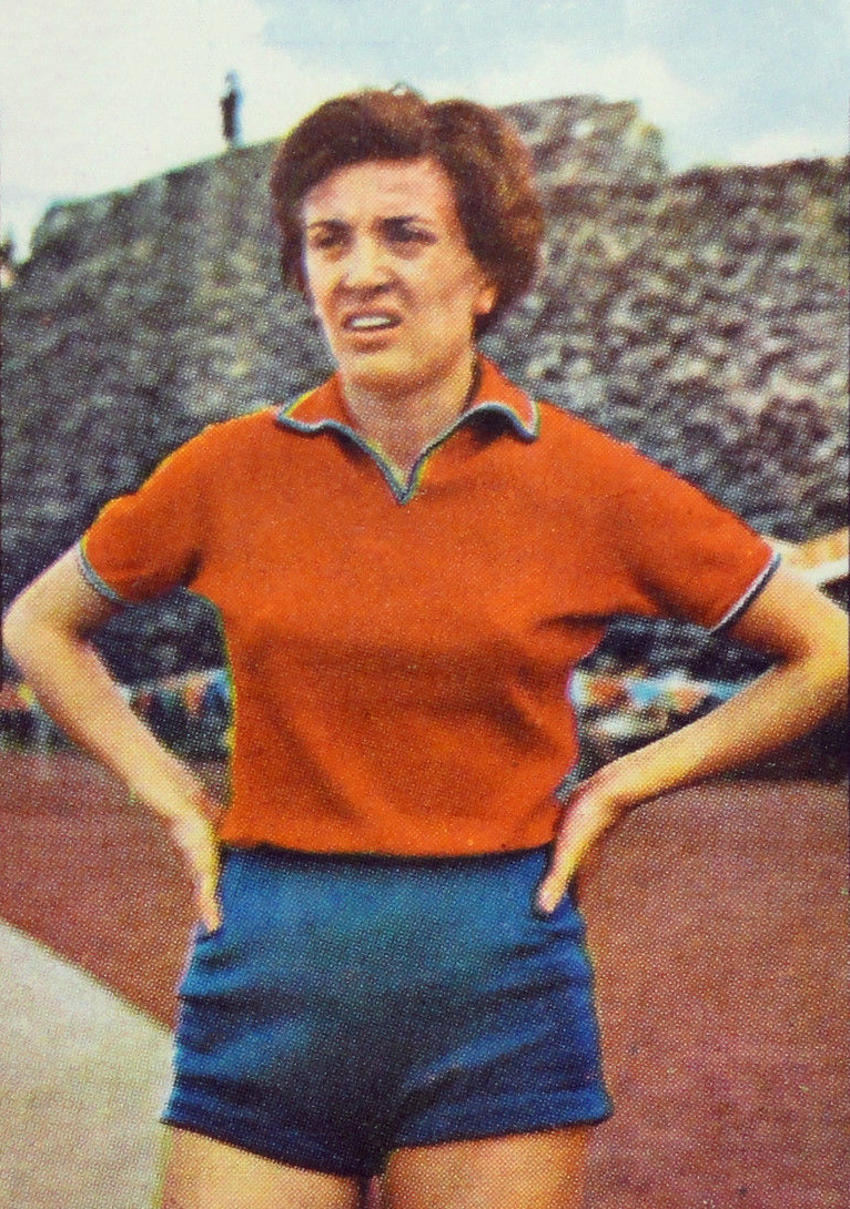 CAMPIONI DELLO SPORT 1969/70-n.99-NIKOLIC (JUG)-ATLETICA LEGG.-rec